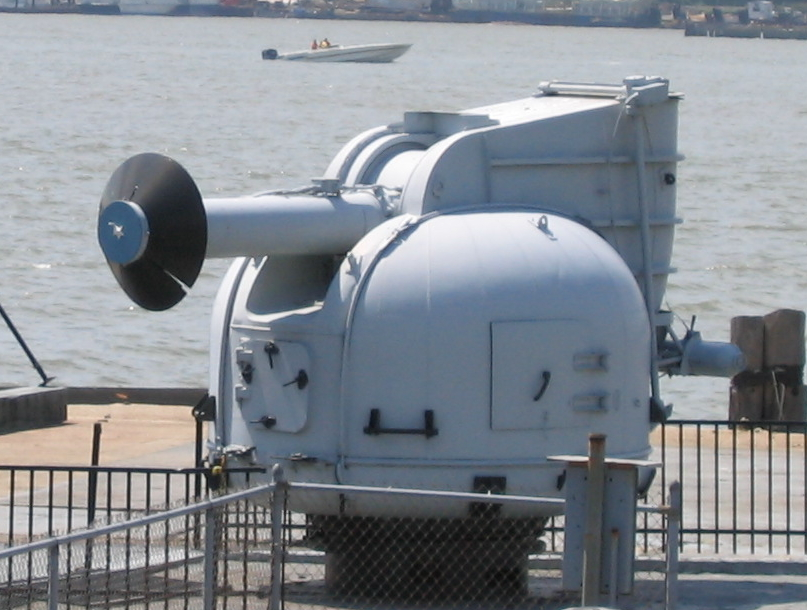 A dismounted RUR-4 Weapon Alpha mount at the USS Intrepid museum